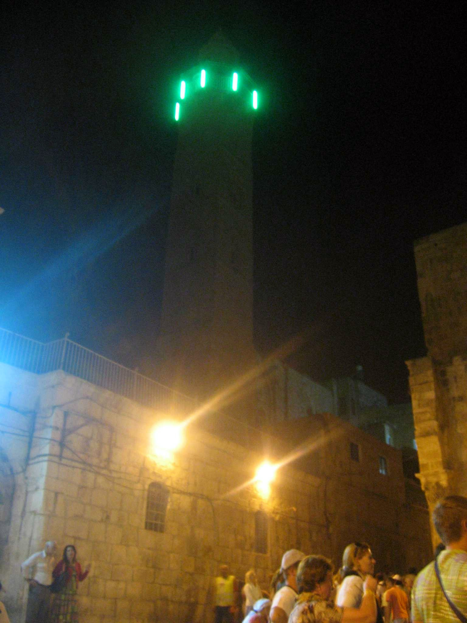 Complex of churches of Holy Sepulchre in Jerusalem Israel at night